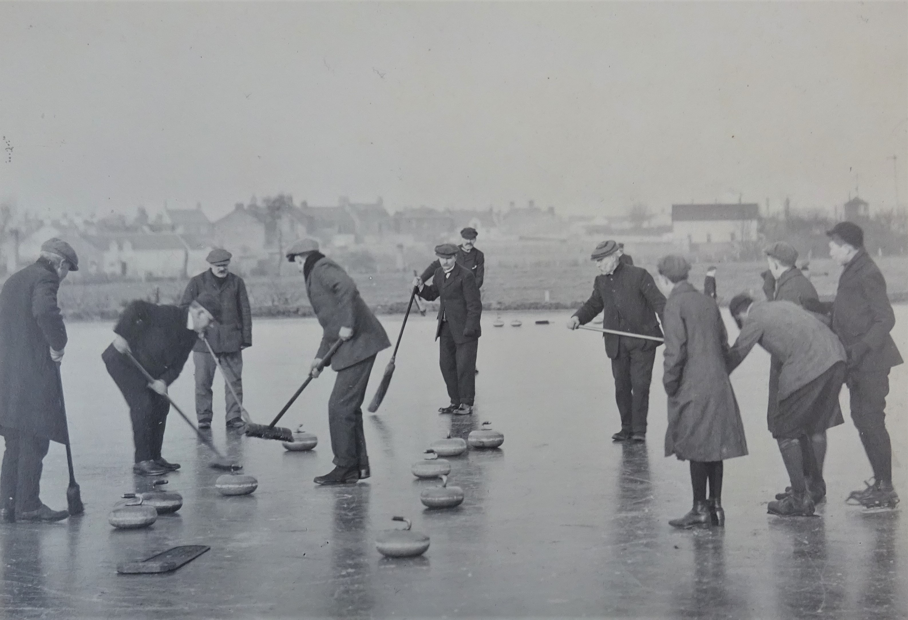 The Dunlop Curling Pond, Minnie's Meadow, Templehouse, East Ayrshire.